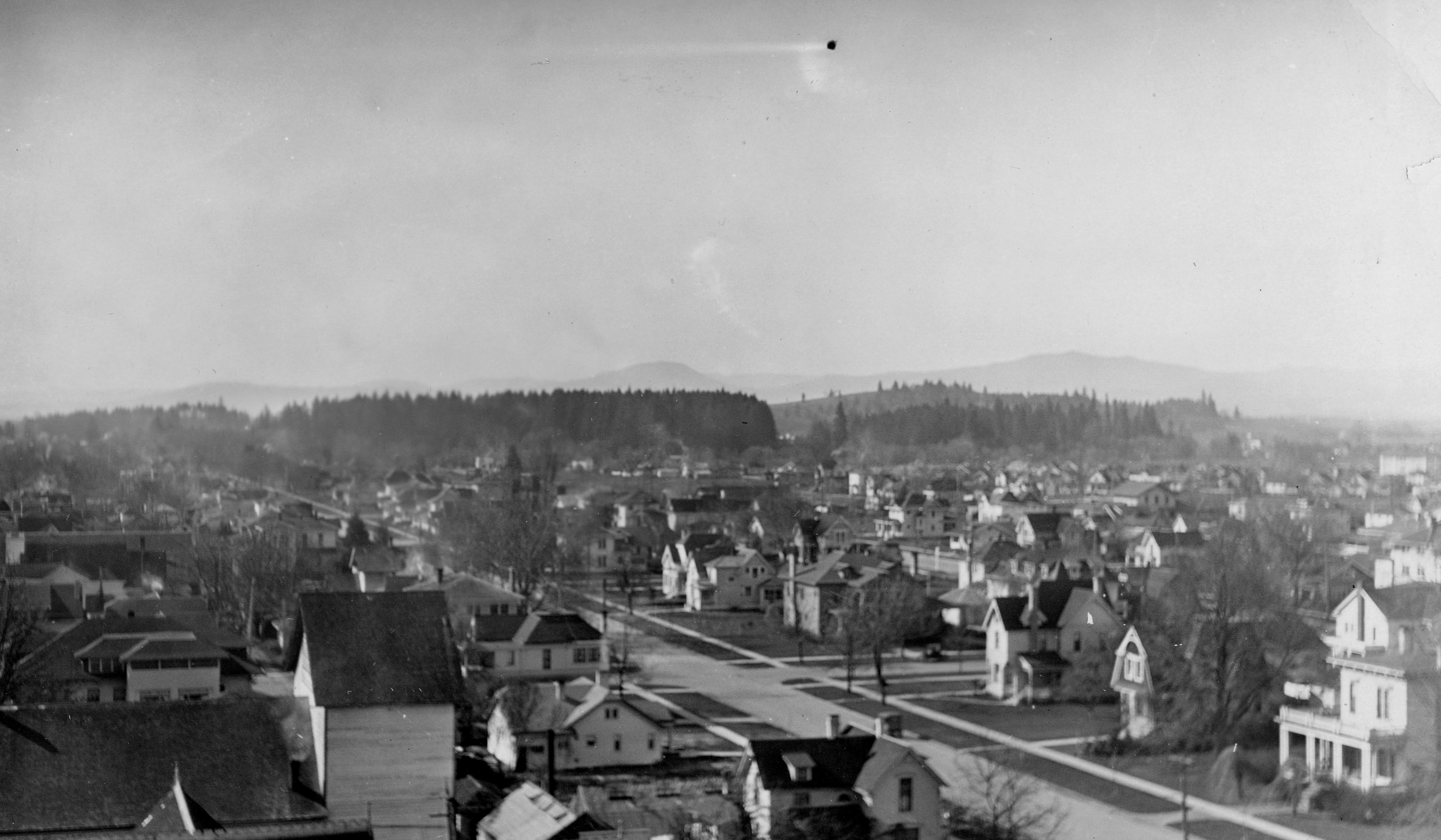 Original Collection: Harriet's Collection Item Number: HC0596 Image Description: The Avery Grove of trees in in the background (now part of Avery Park). You can find this image by searching for the item number by clicking here. Want more? You can find more digital resources online. We're happy for you to share this digital image within the spirit of The Commons; however, certain restrictions on high quality reproductions of the original physical version may apply. To read more about what “no known restrictions” means, please visit the Special Collections & Archives website, or contact staff at the OSU Special Collections & Archives Research Center for details.